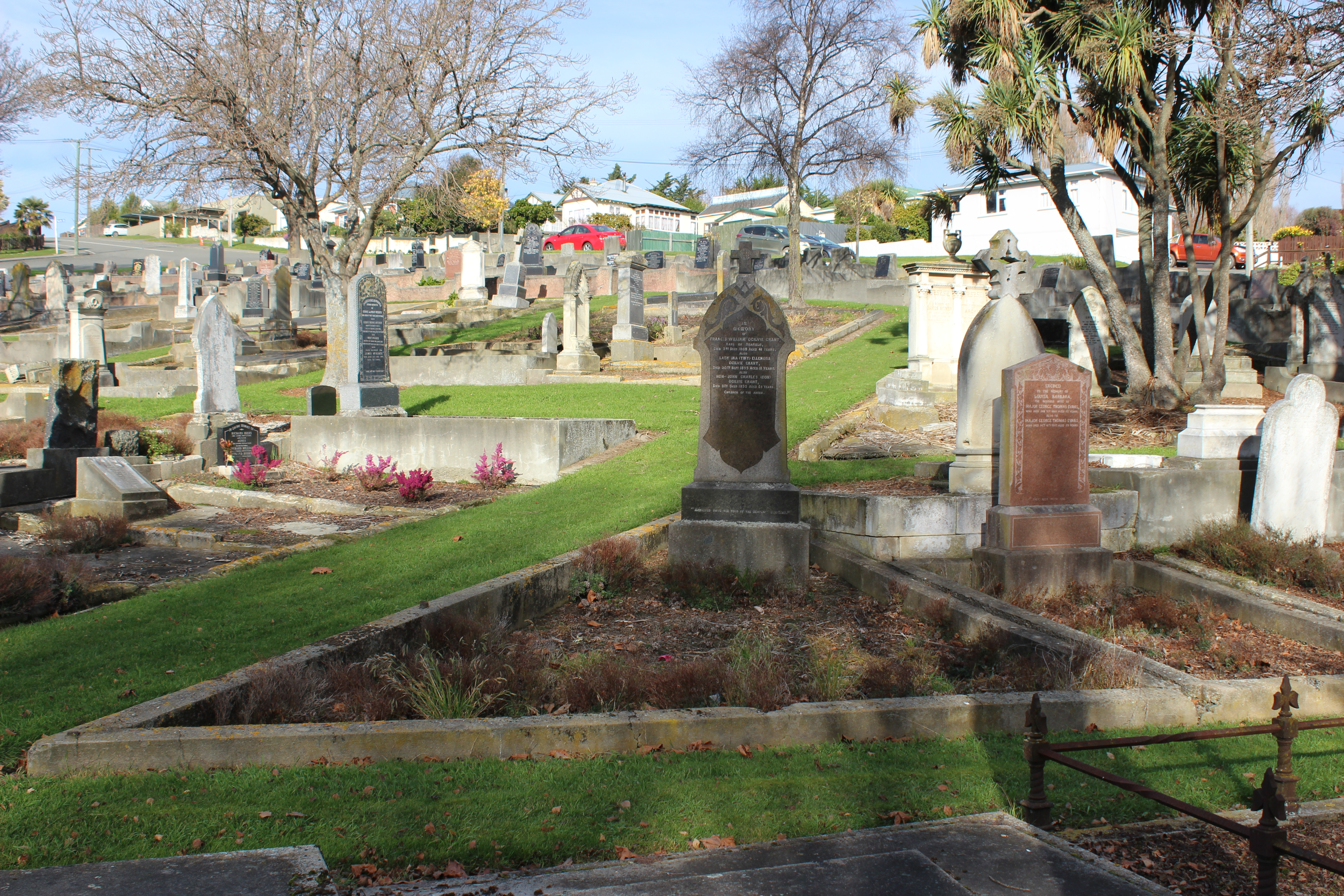 Grave of the 10th Earl of Seafield, Francis William Ogilvie Grant, at the Old Oamaru Cemetery, New Zealand